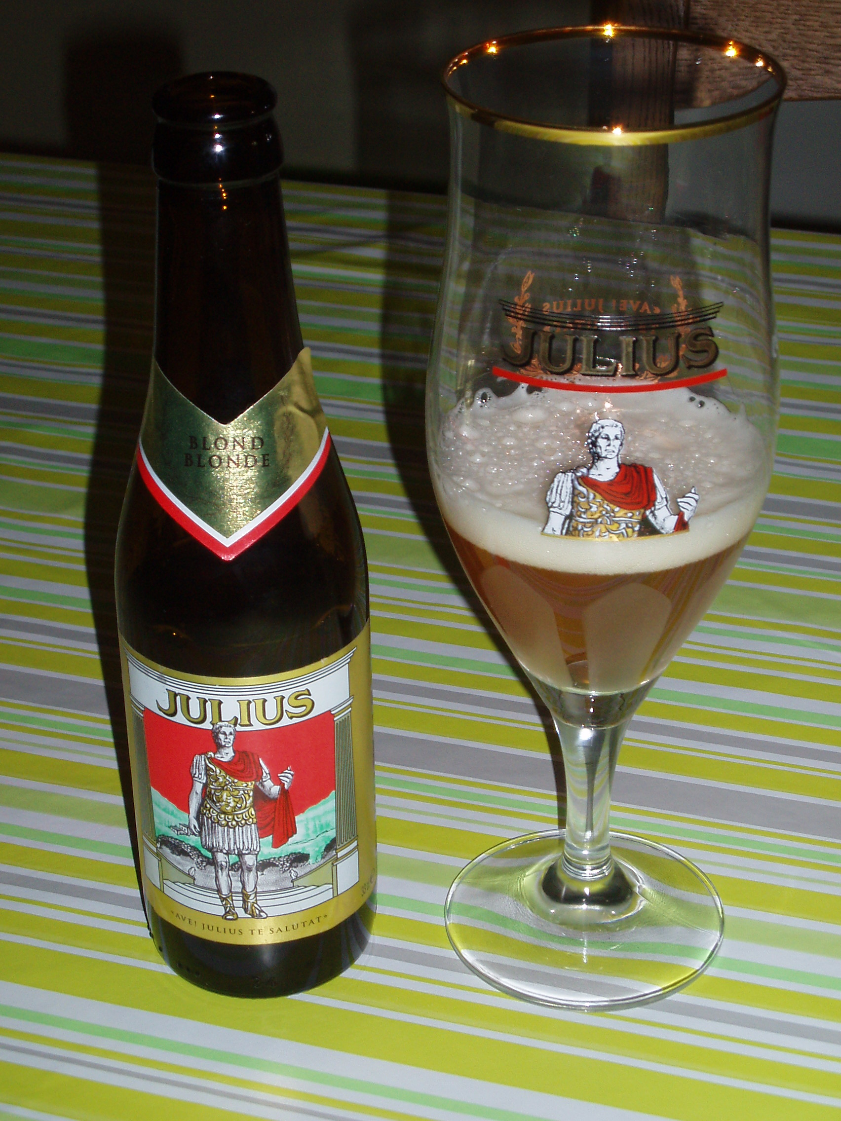 Hoegaarden Julius beer